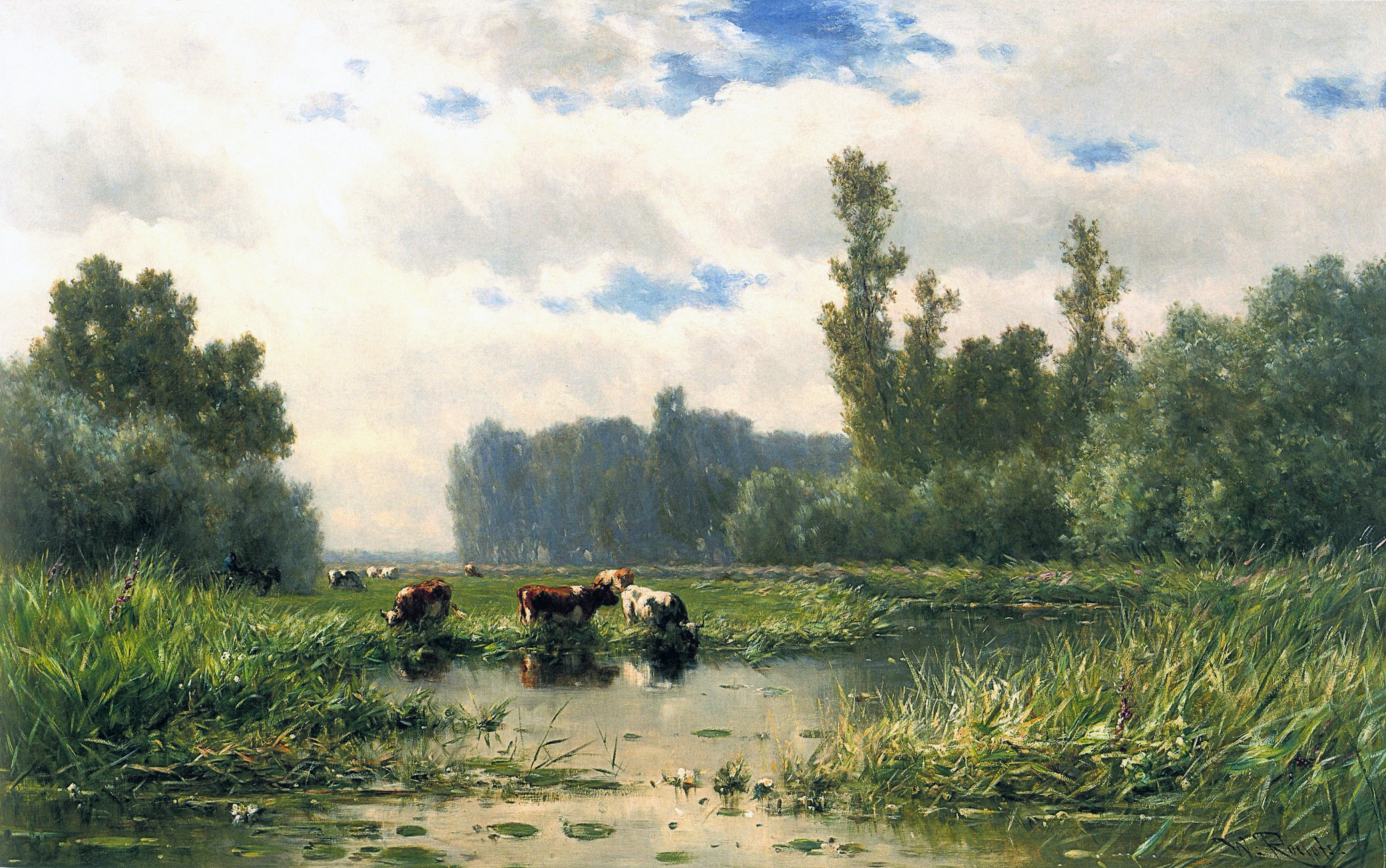 Cows at the waterside